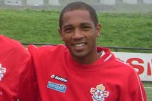 Picture of George Mallia.